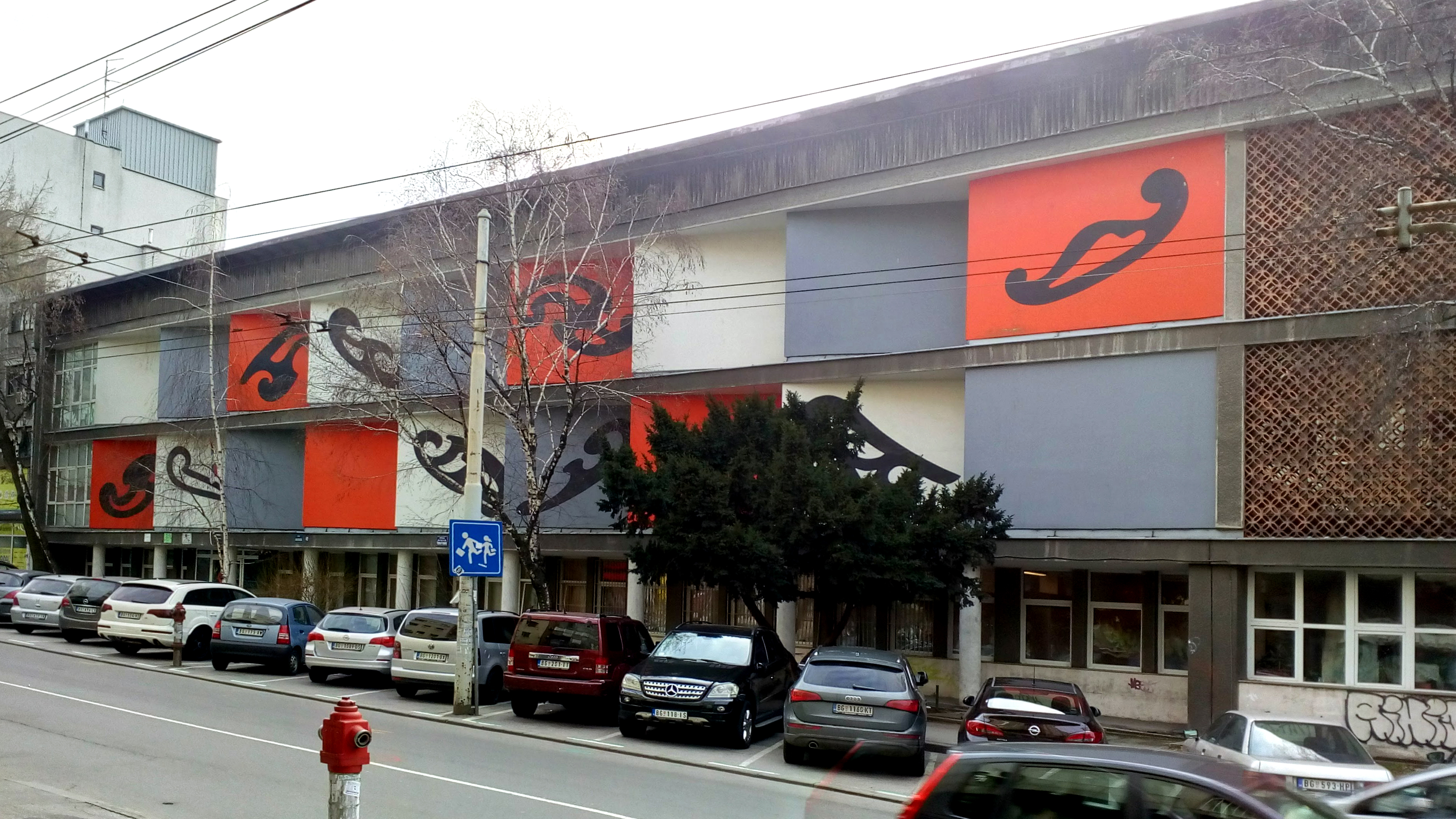 Mural on the facade of the "Sveti Sava" elementary school in Makenzijeva Street in Belgrade (Vladimir Perić, 2009)